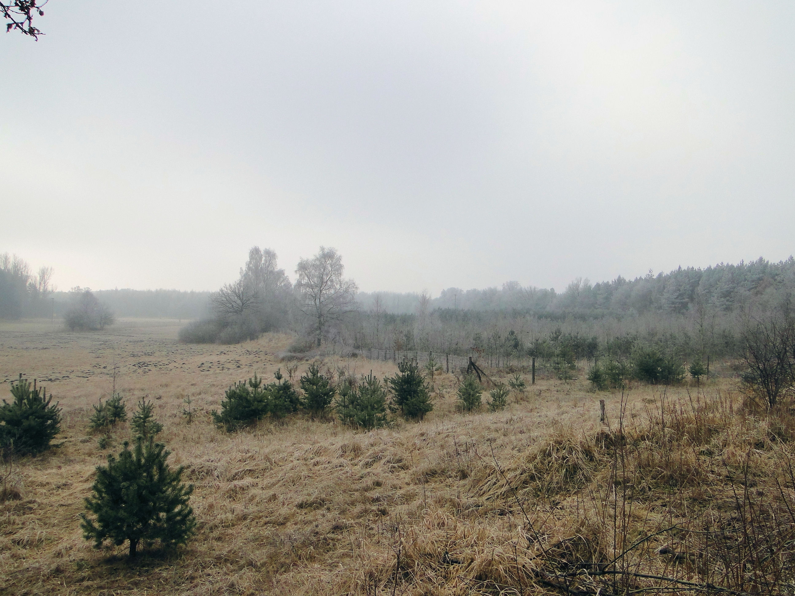 Landscape in Neu Schwinz, district Parchim, Mecklenburg-Vorpommern, Germany